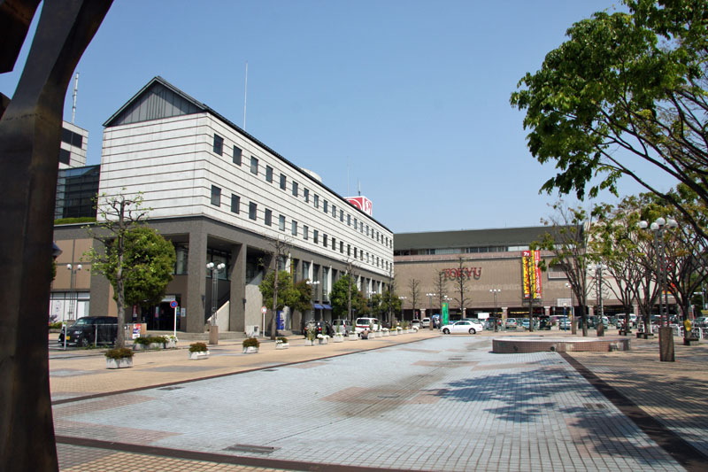 Akiruno Shopping City (Left:Akiruno Rupia, Right:Akiruno Tokyu) in Akiruno, Tokyo, Japan